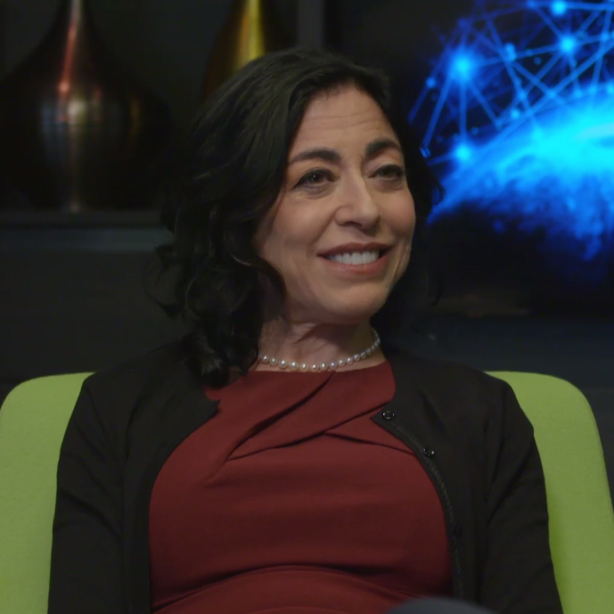 Jennifer Tour Chayes is Managing Director and Distinguished Scientist at Microsoft Research New England in Cambridge, Massachusetts, which she founded in 2008, and Microsoft Research New York City, which she founded in 2012 - crop from VPRO video